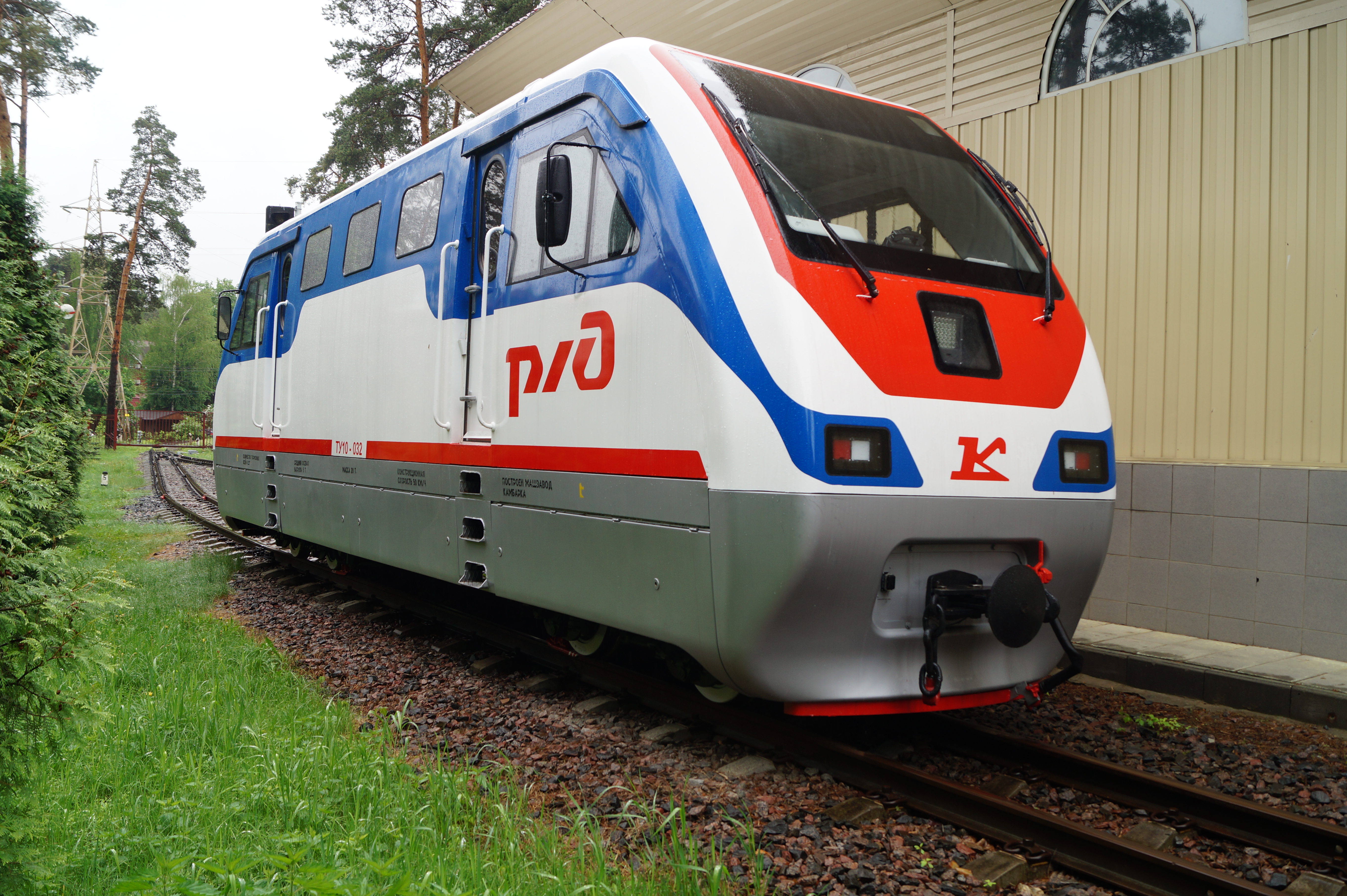 TU10-032 at Kratovo children railway 2018-05-20